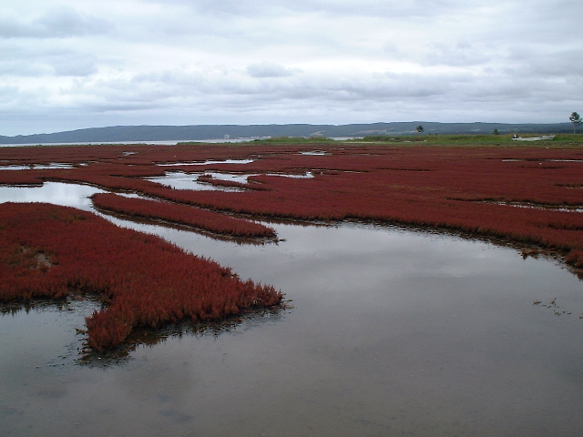 Salicornia in Lake of Notoro Photo by しいな